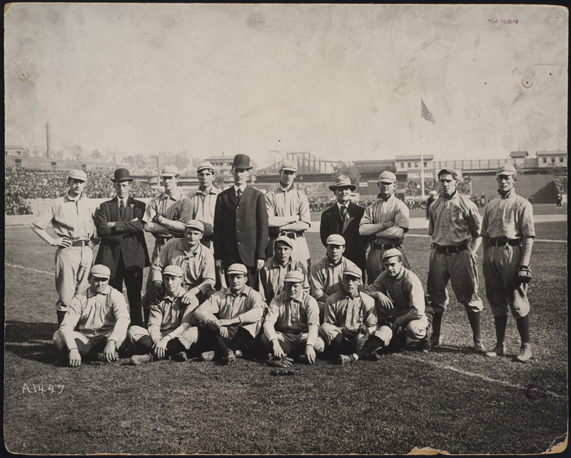 Accession No.: 06_06_000187 Title: Connie Mack and the Philadelphia Athletics, 1905 World Series Creator: Pictorial News Company, N.Y. Date: 1905 Format: photograph Description: Taken at the Polo Grounds in New York during the World Series between Connie Mack's Philadelphia Athletics and John McGraw's New York Giants. Players include: Chief Bender, standing fourth from left (behind Mack); Rube Waddell, kneeling, far left; Jimmy Dygert, kneeling, far right; Eddie Plank, seated far right; Topsy Hartsel, seated, second from right; Lave Cross, seated, third from right in front of Mack; Socks Seybold, seated, far left. BPL Collection: McGreevey Collection BPL Department: Print Subject: Baseball--History Philadelphia Athletics (Baseball team) Sports spectators